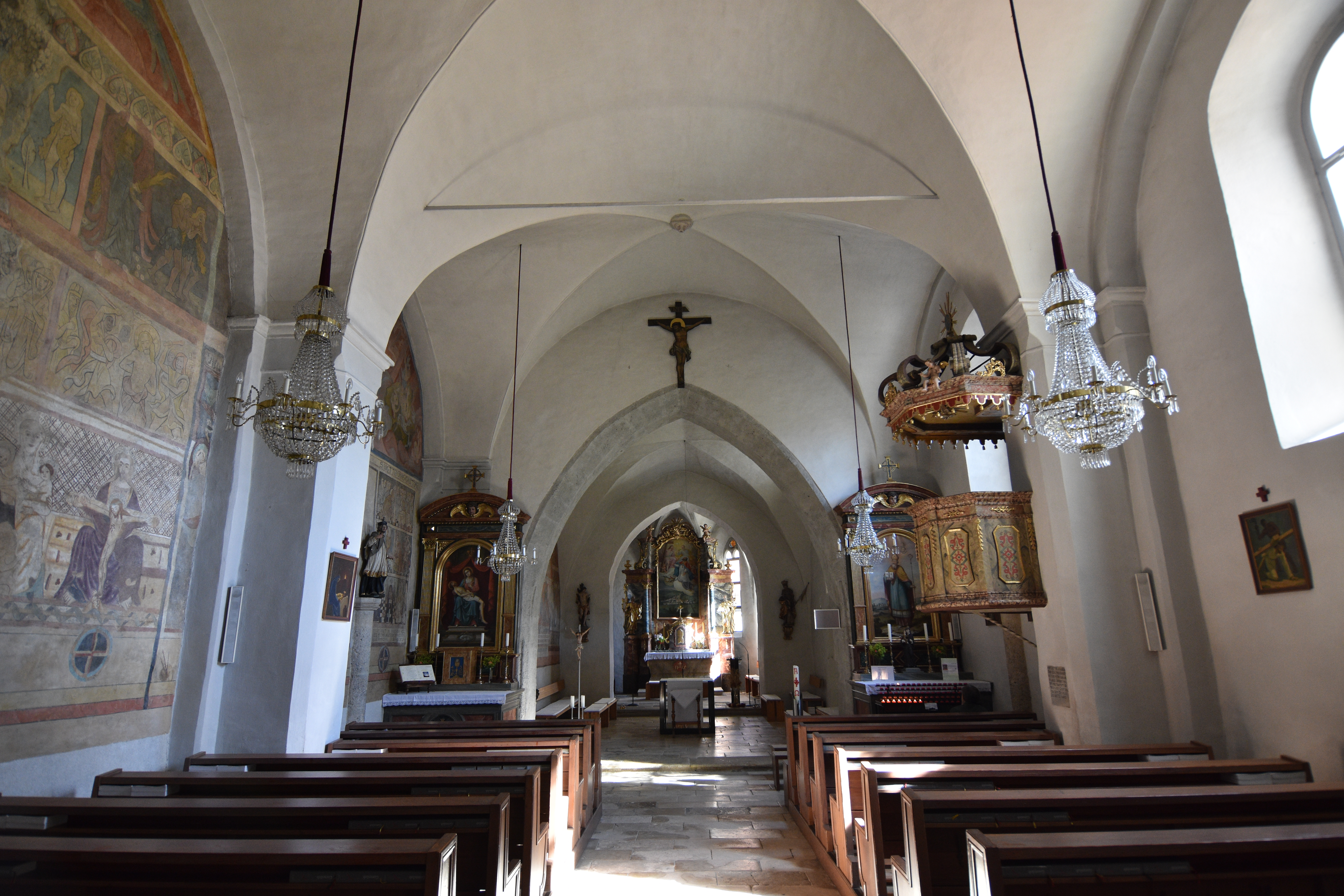 Church Taborkirche Weiz Interior